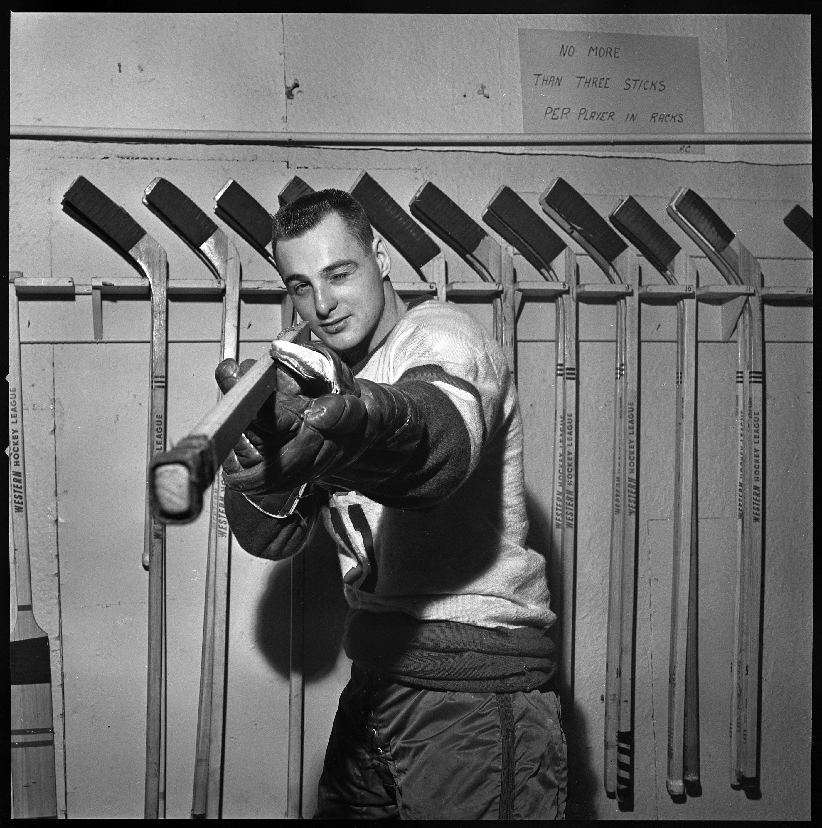 DESCRIPTION: Dan Belisle (Vancouver Canucks 1960-61) with hockey stick VPL Accession Number: 46906 Date: December 14, 1960 Photographer/Studio, Vancouver Province newspaper SUBJECTS: Hockey players, Hockey uniforms, ice hockey More information on our historical photograph collection